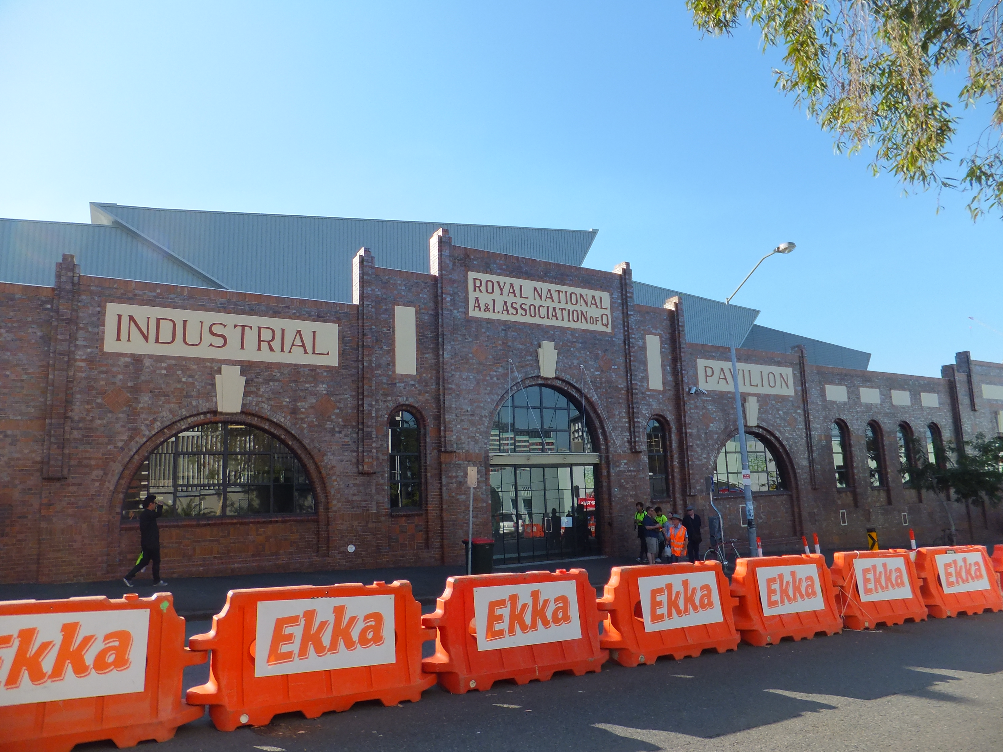 Exterior of RNA building - Ekka / Royal Queensland Show